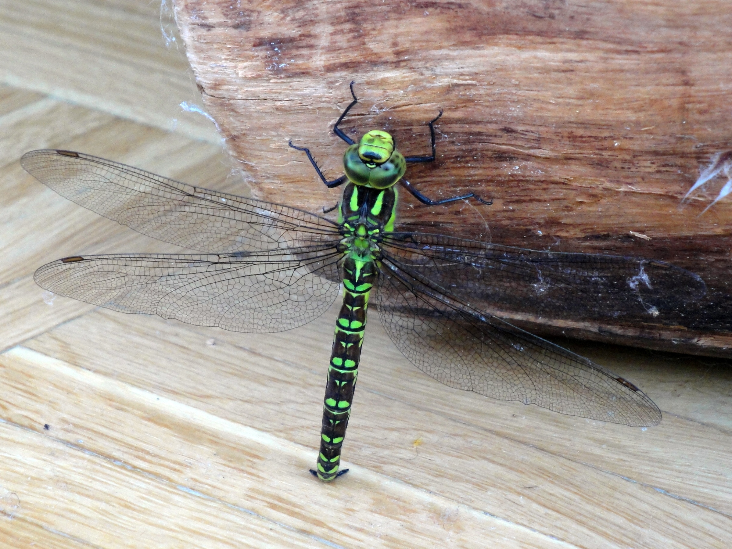 Dragonfly: Southern Hawker Aeshna cyanea (female)